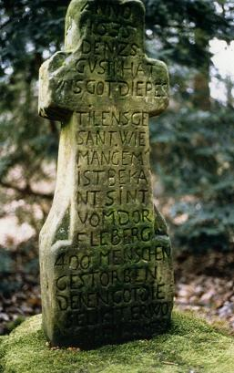 Plague cross near Leiberg. The inscription reads, roughly: "In the year 1635, the 25th of August, our God gave us the Great Plague. The [death toll?] is unknown, [?] 400 people from the village of Leiberg died, those who had caught [the disease?]. Amen.